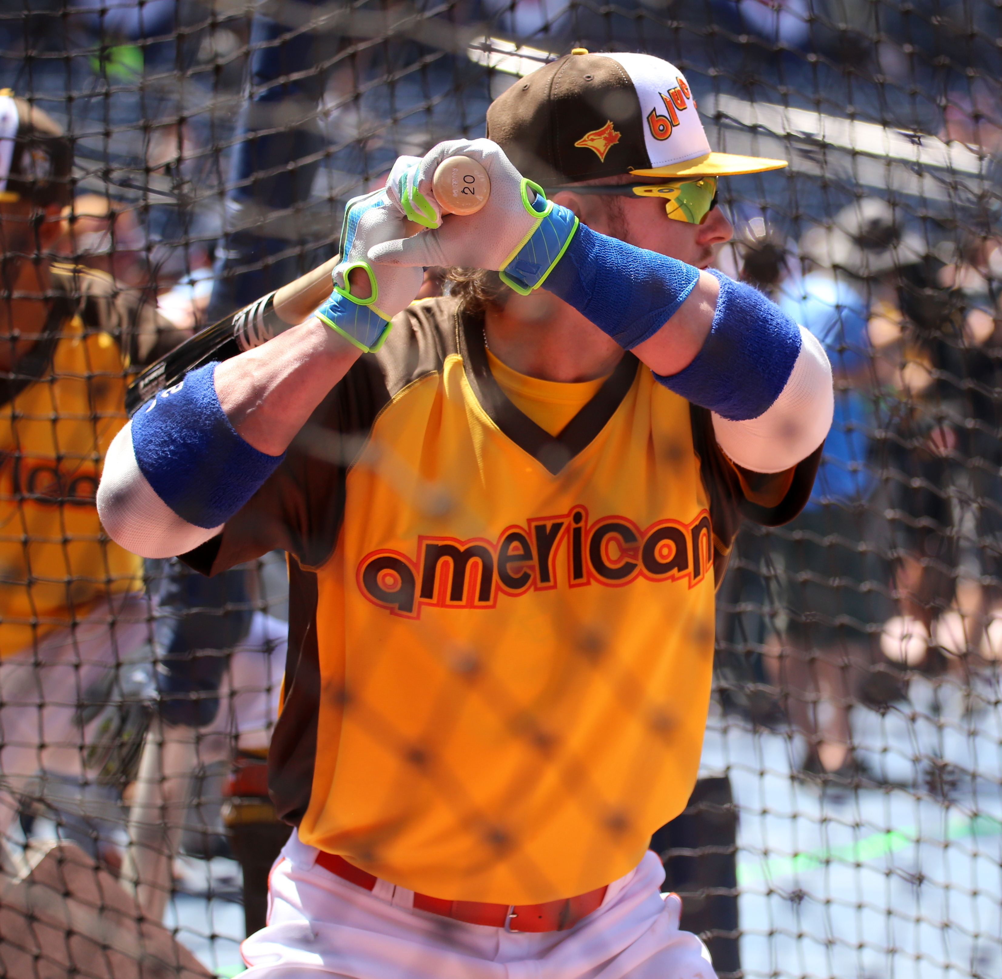 Blue Jays third baseman Josh Donaldson takes batting practice on Gatorade All-Star Workout Day.